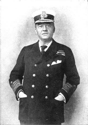 Phograph of Jackie Fisher as C-in-C Portsmouth, 1904 (according to caption.)